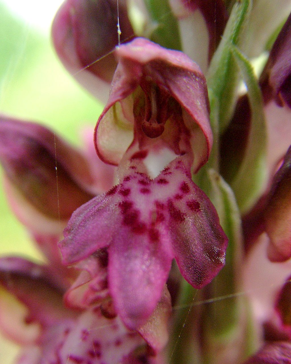 Anacamptis coriophora